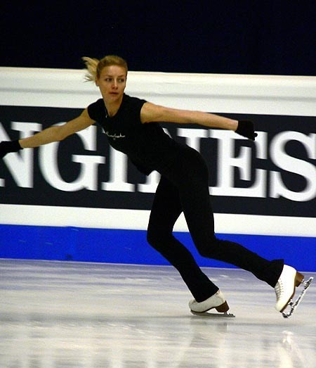 Viktoria Volchkova at the 2006 European Figure Skating Championships